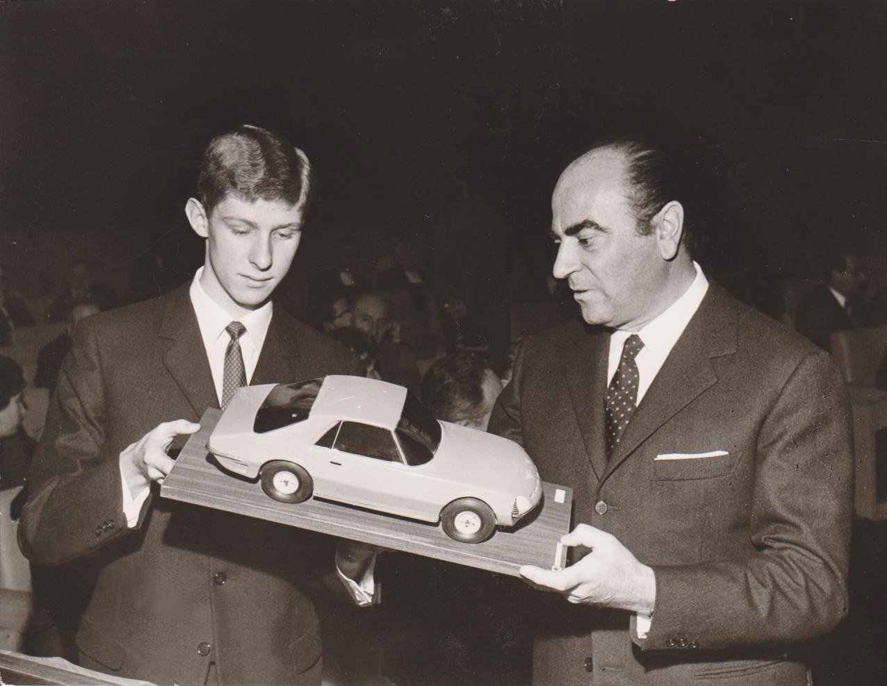 The 1966 Grifo d'Oro designed by Enrico Fumia (left), winner of a young designers competition arranged by Bertone, here represented by owner Nuccio Bertone.